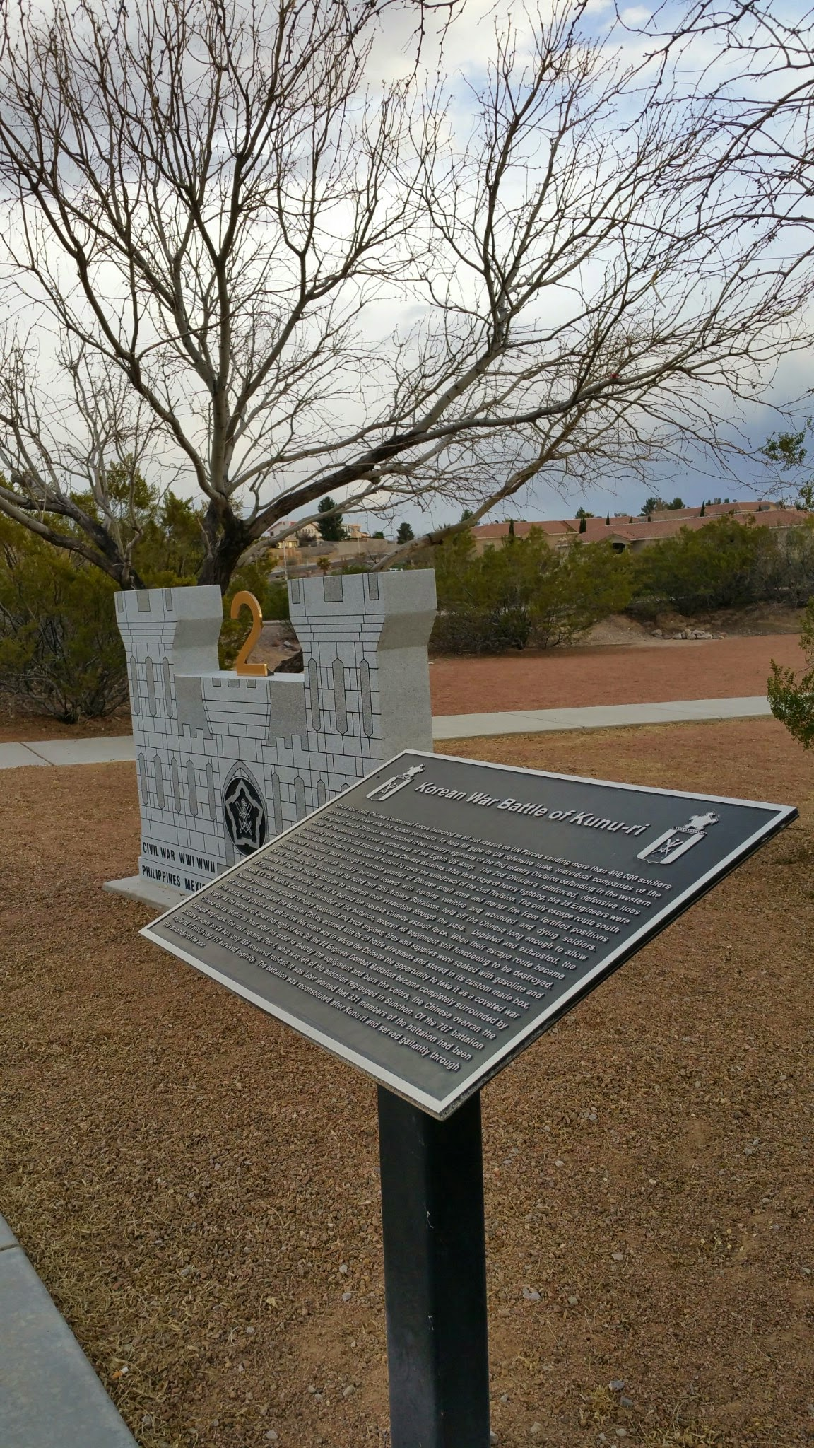 Plaque describing Battle of Kunu-ri in foreground, while the US Corps of Army Engineers castle with brass '2' atop to represent the 2nd Engineer Battalion.